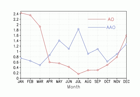 Variance of monthly mean AO and NAO indices (CDAS RPCA/EOF analysis, 1950-2000), see NOAA-CPC: Teleconnection Pattern Calculation Procedures